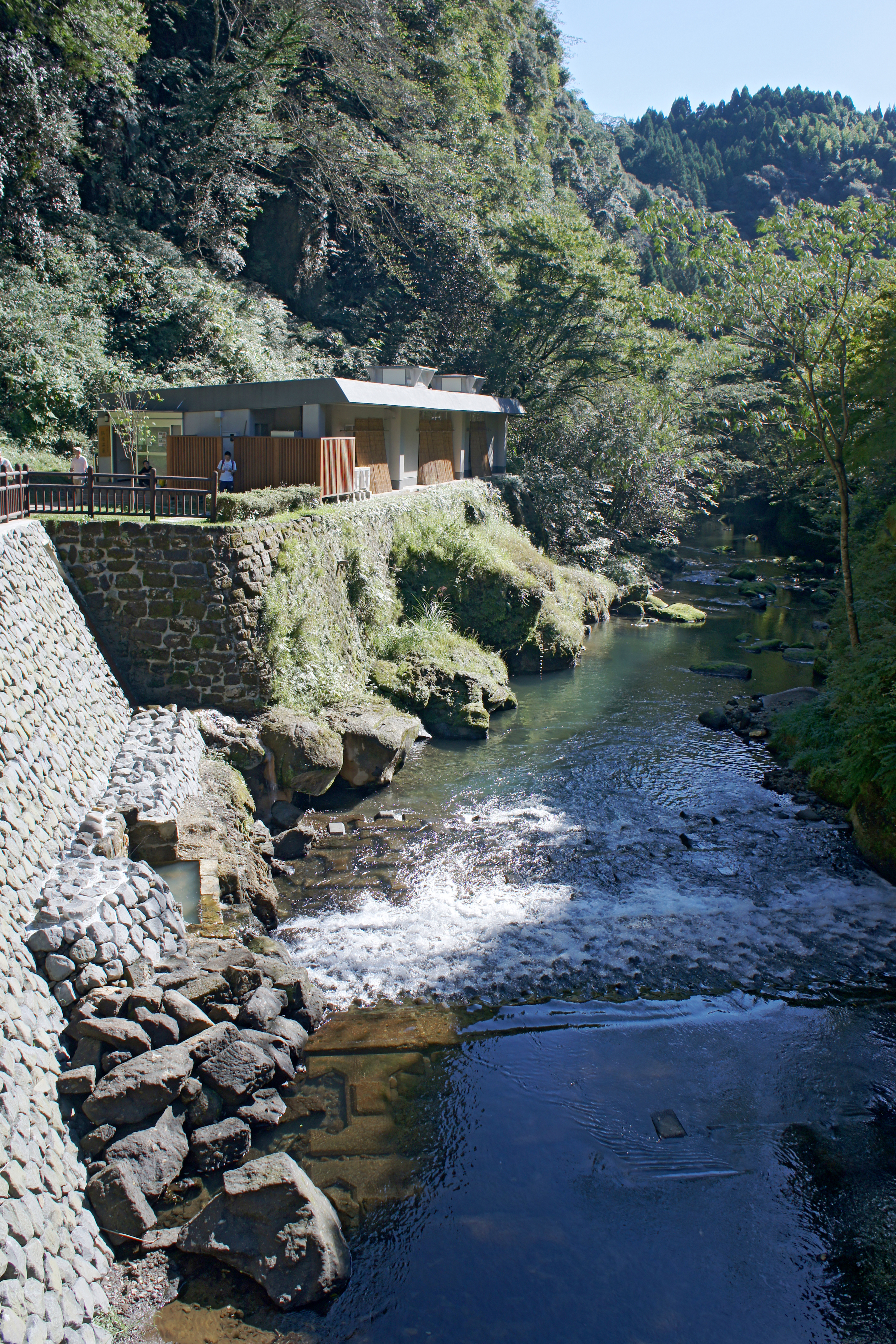 Shiobitashi Onsen in Kirishima, Kagoshima prefecture, Japan.